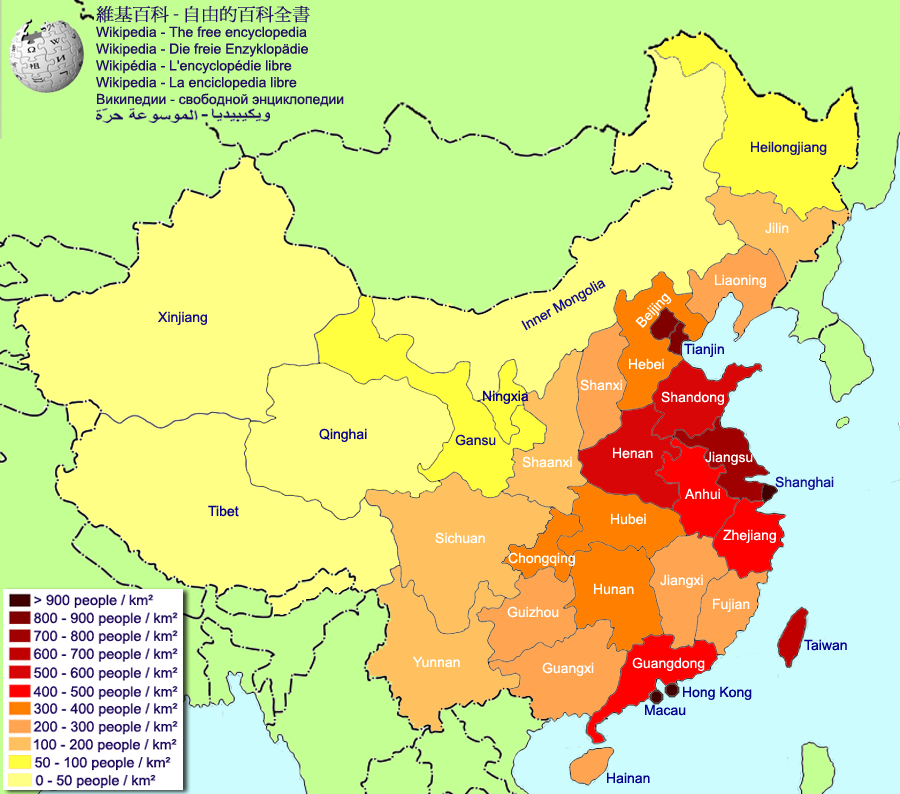 The map for the population density of the first-level administrative regions of China File:China Pop Density.svg is a vector version of this file. It should be used in place of this raster image when not inferior. File:Population density of China by first-level administrative regions(English).png File:China Pop Density.svg For more information, see Help:SVG. In other languages